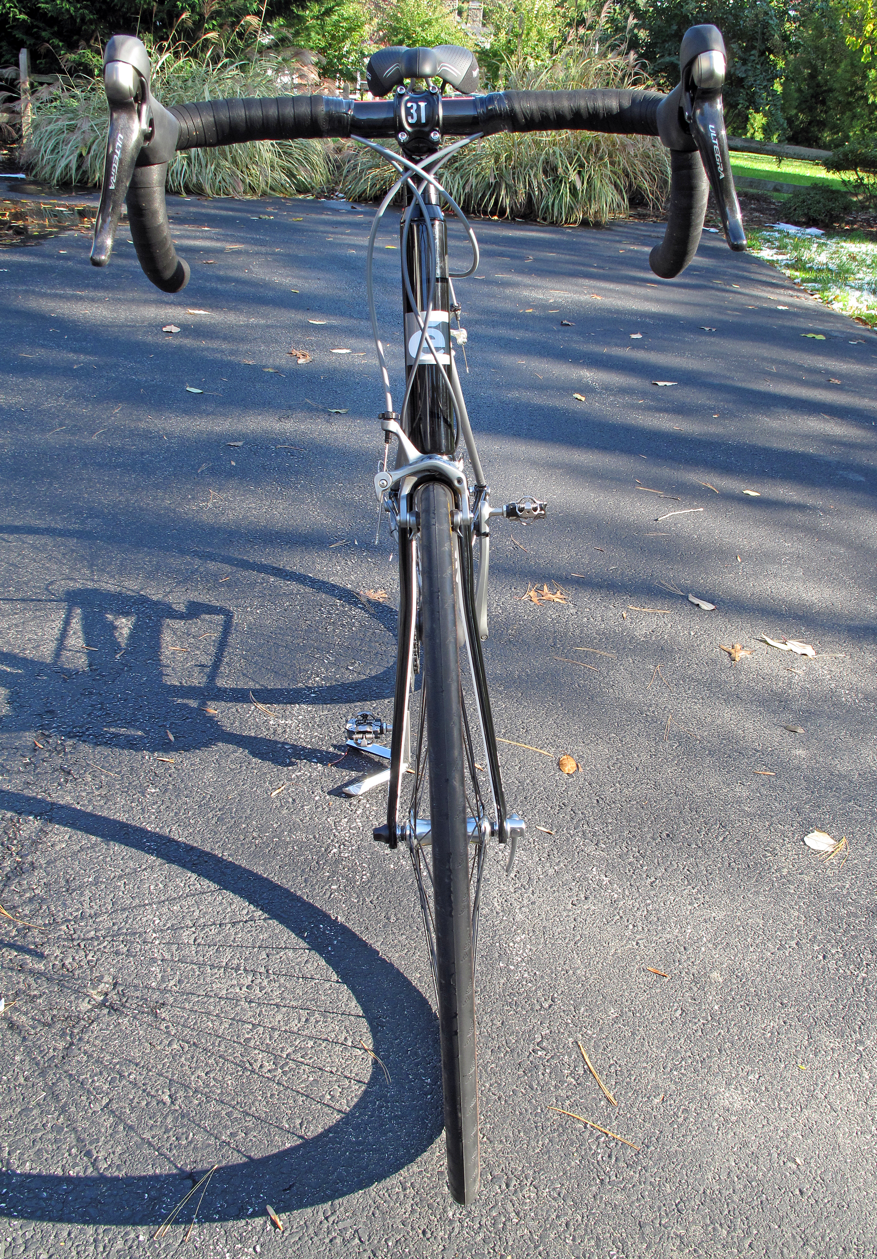 Front view of a 2010 Cervélo RS road bike